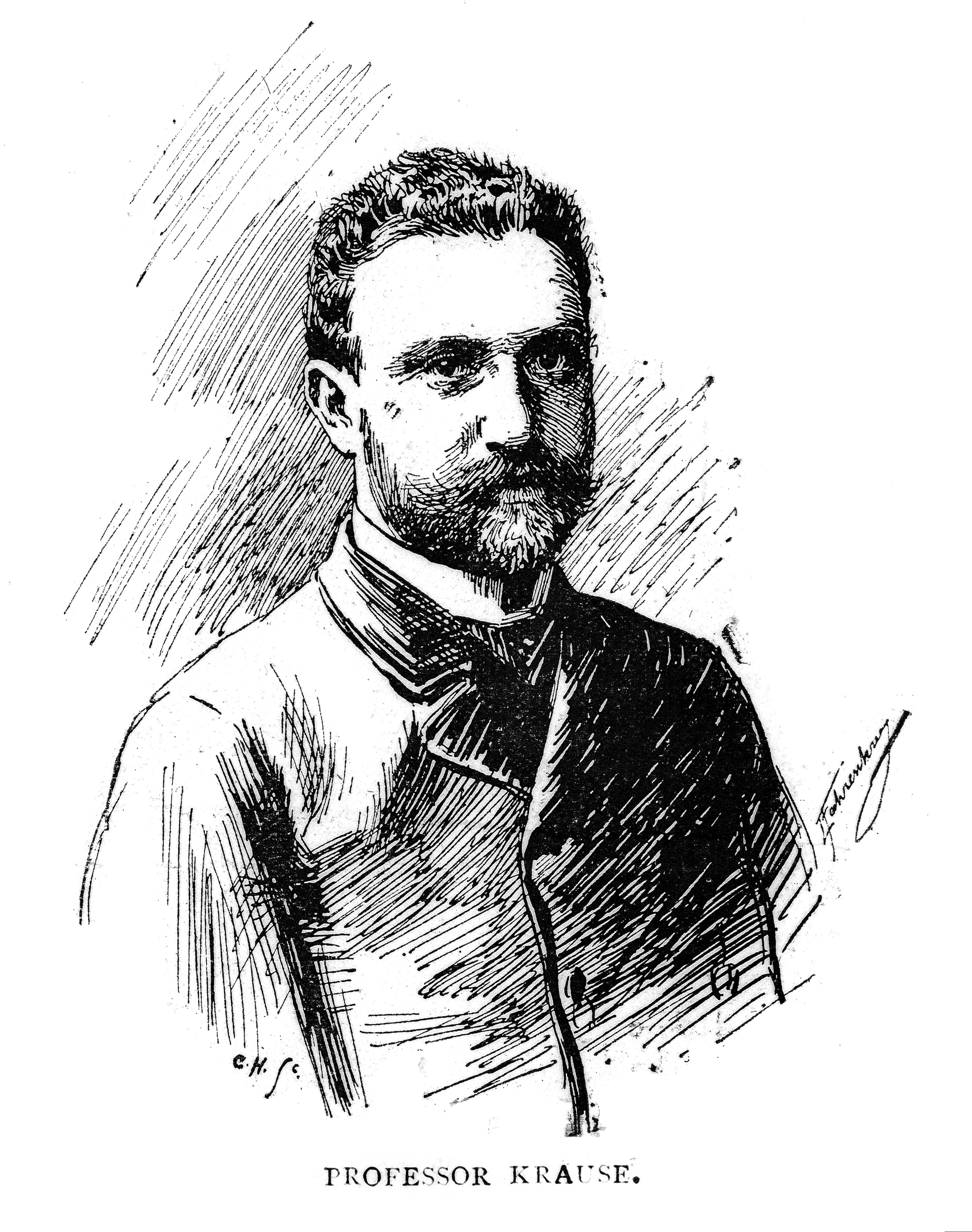 Fedor Krause, from a group entitled Leading Medical Light of Berlin. Wellcome Images Keywords: Fedor Krause